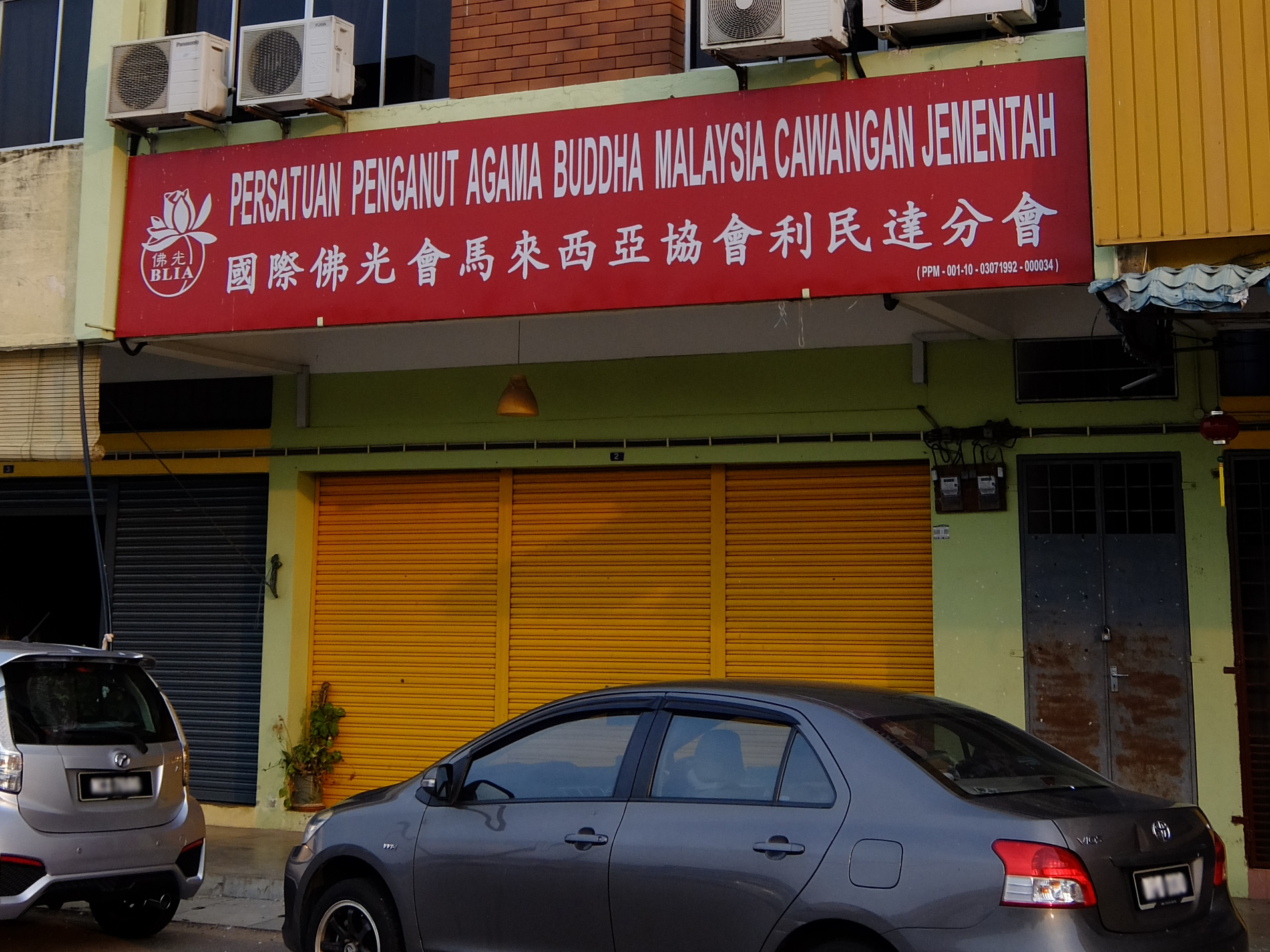 Malaysian Buddhist Association Jementah Branch, Jementah, Segamat, Johor, Malaysia